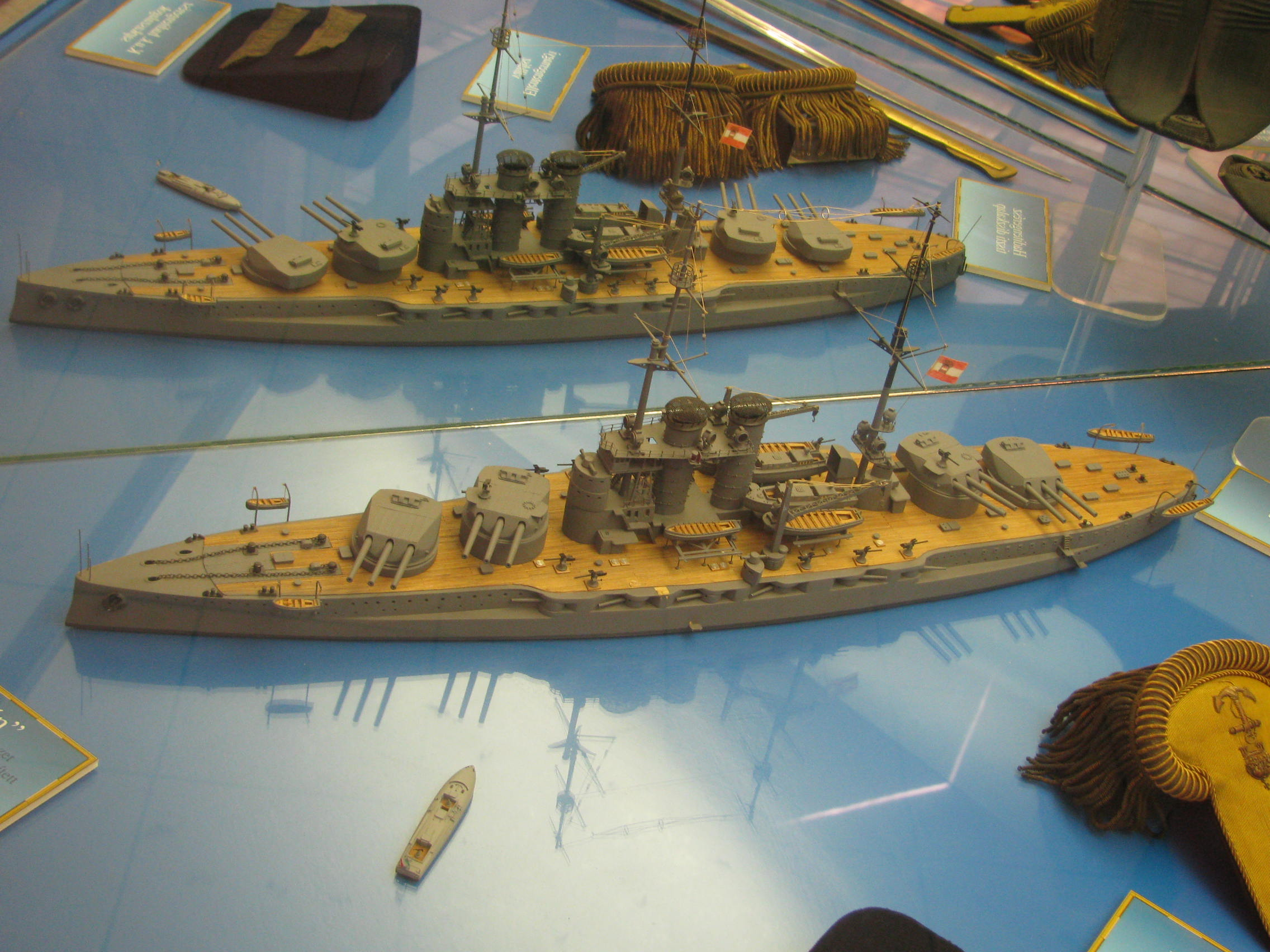 A model of Austro-Hungarian naval ship SMS Szent István being attacked by Italian MAS-15 boat.